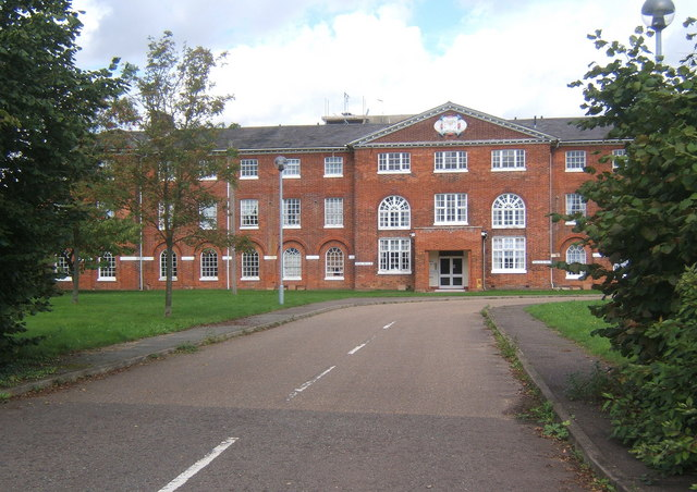 Entrance to Stow Lodge flats, Stowmarket Formerly Stow Lodge Hospital, which closed in 1991. Originally a workhouse, established by 1781.